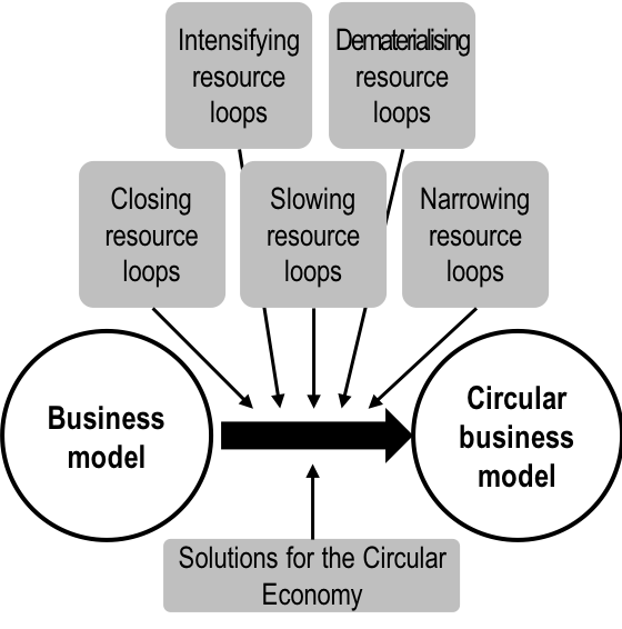 The difference between a conventional and a circular business model